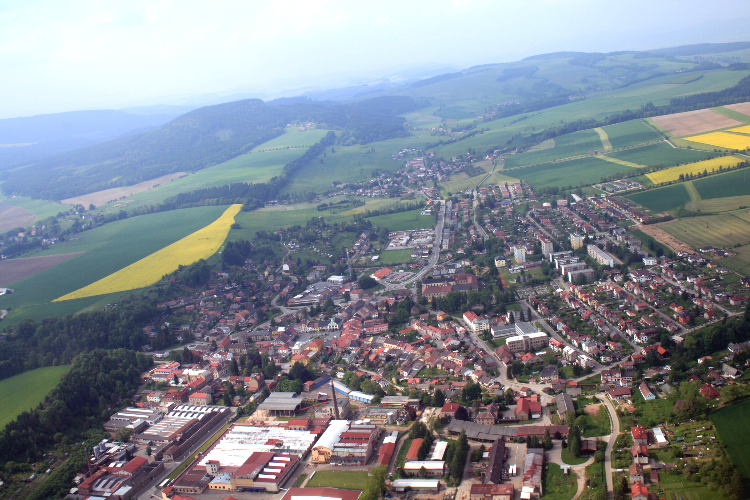 Town Police nad Metují from air, eastern Bohemia, Czech Republic